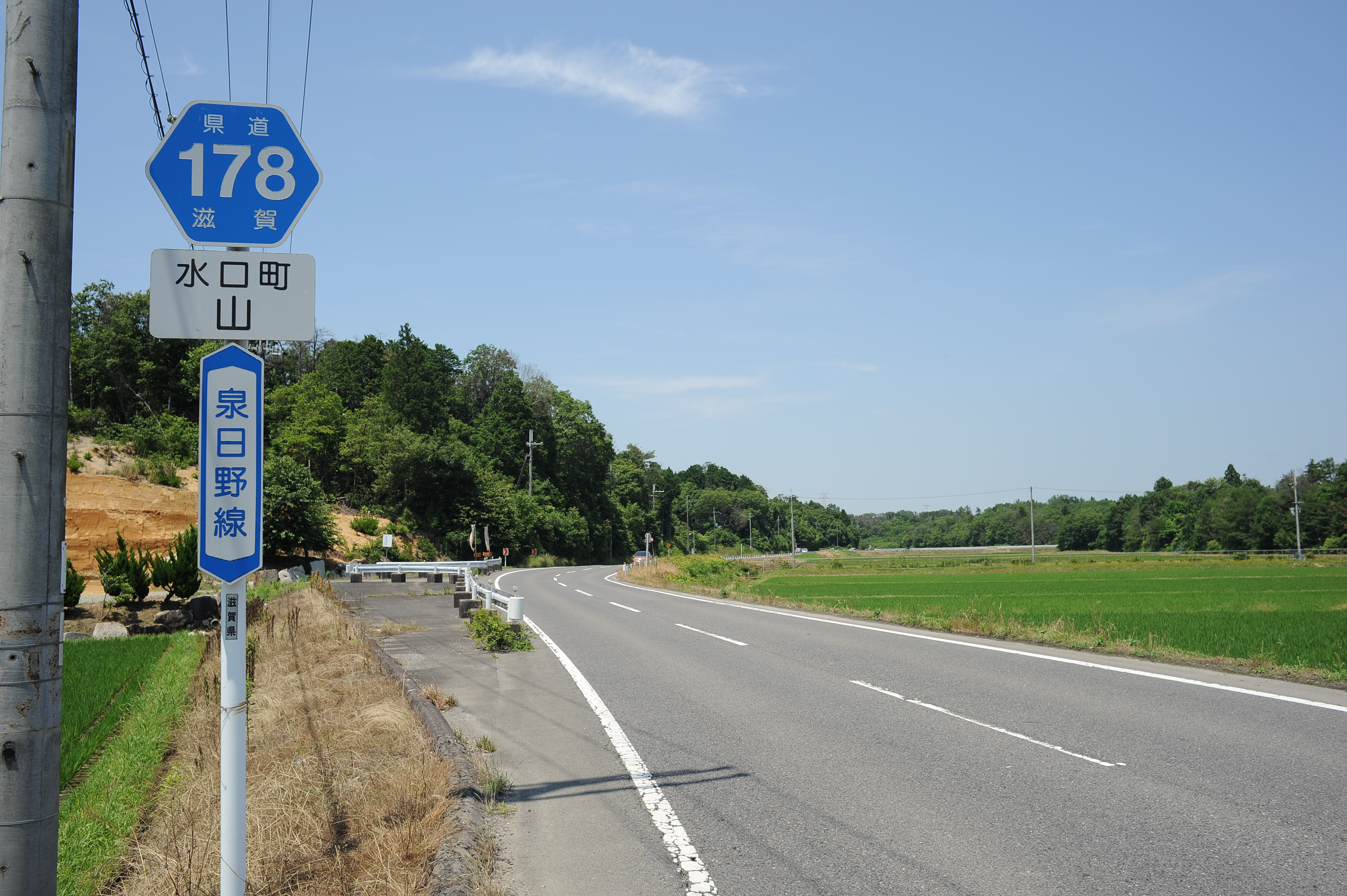 Siga Prefectural Route 178, Koka, Shiga